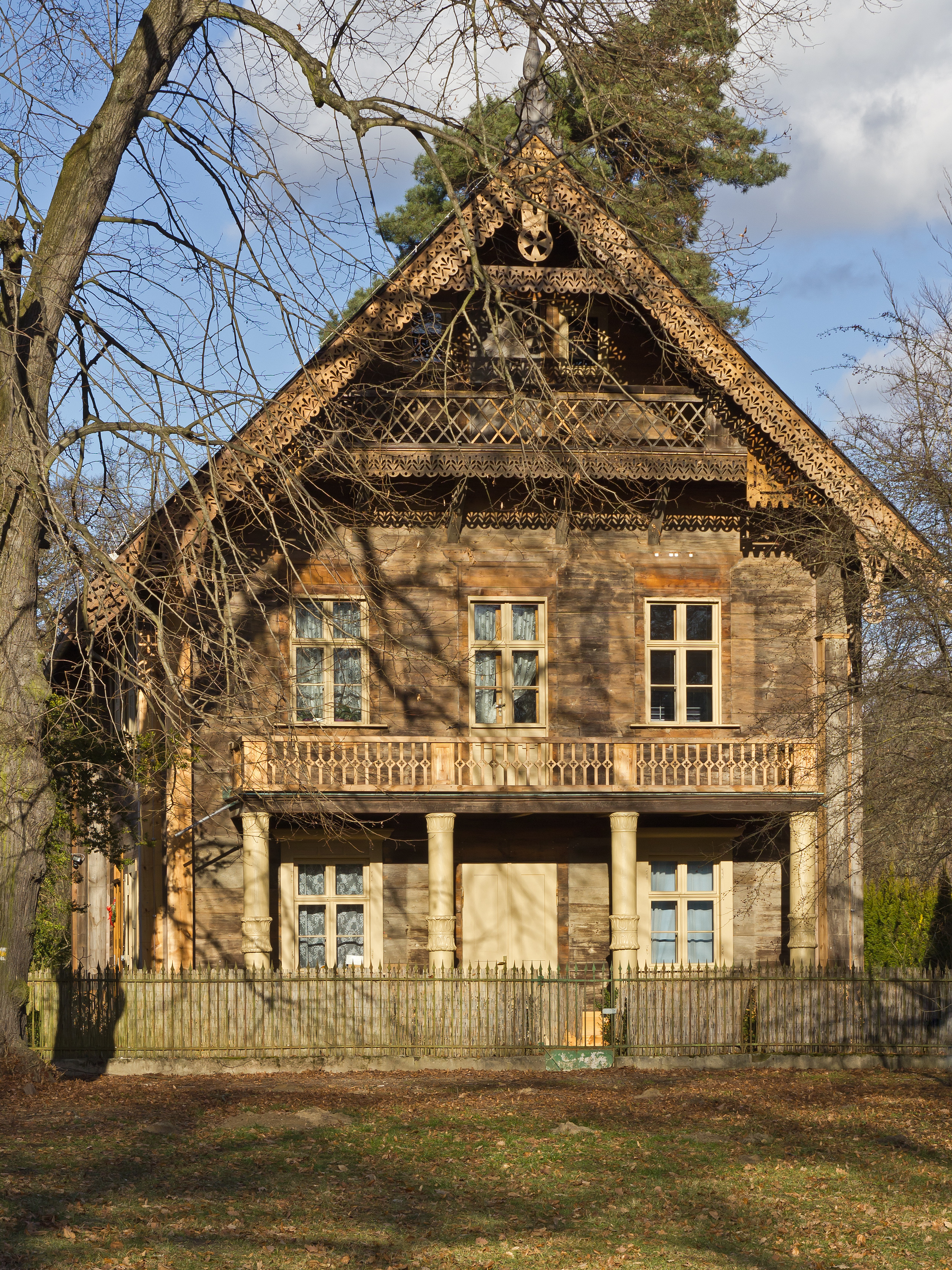 Russian settlement Alexandrowka in Potsdam, Germany